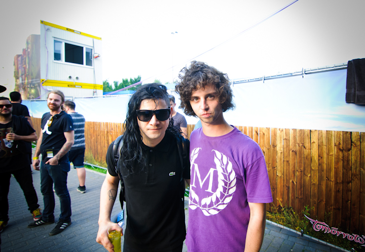 Sonny Moore & Joeri Swerts